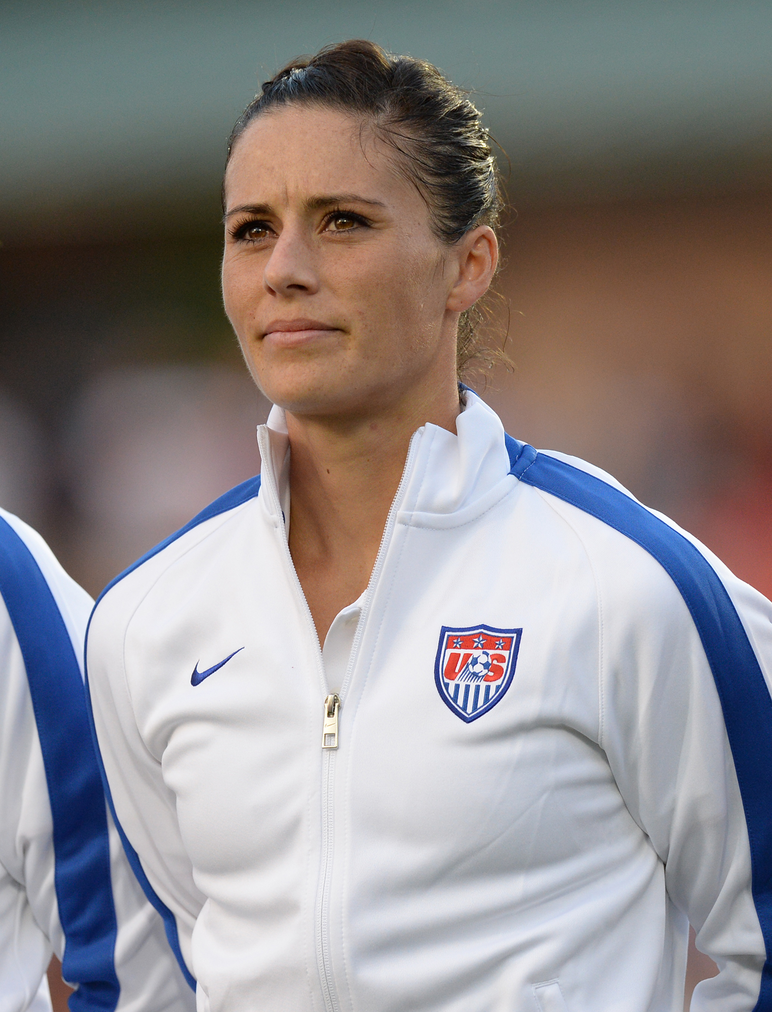 Ali Krieger before USA v DEN in Cary, NC. August 20, 2014